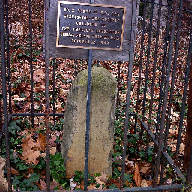 DC Boundary Stone Northwest Mile 2, that is the boundary marker 2 miles NE of the westernmost marker of the original District of Columbia, now in northern Virginia. The stone was placed in 1791-1792 by Andrew Ellicott and Benjamin Banneker. See for a map of these stones.